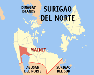 Map of the Surigao del Norte showing the location of Mainit